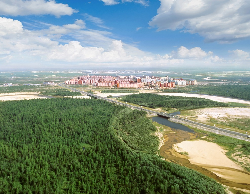 North Districts of Novy Urengoy (аerial photo)